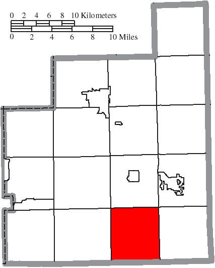 Map of the municipal and township boundaries of Geauga County, Ohio, United States, as of the 2000 census, with the location of Troy Township highlighted. Township borders are shown only in unincorporated areas in order to differentiate incorporated and unincorporated areas more clearly.